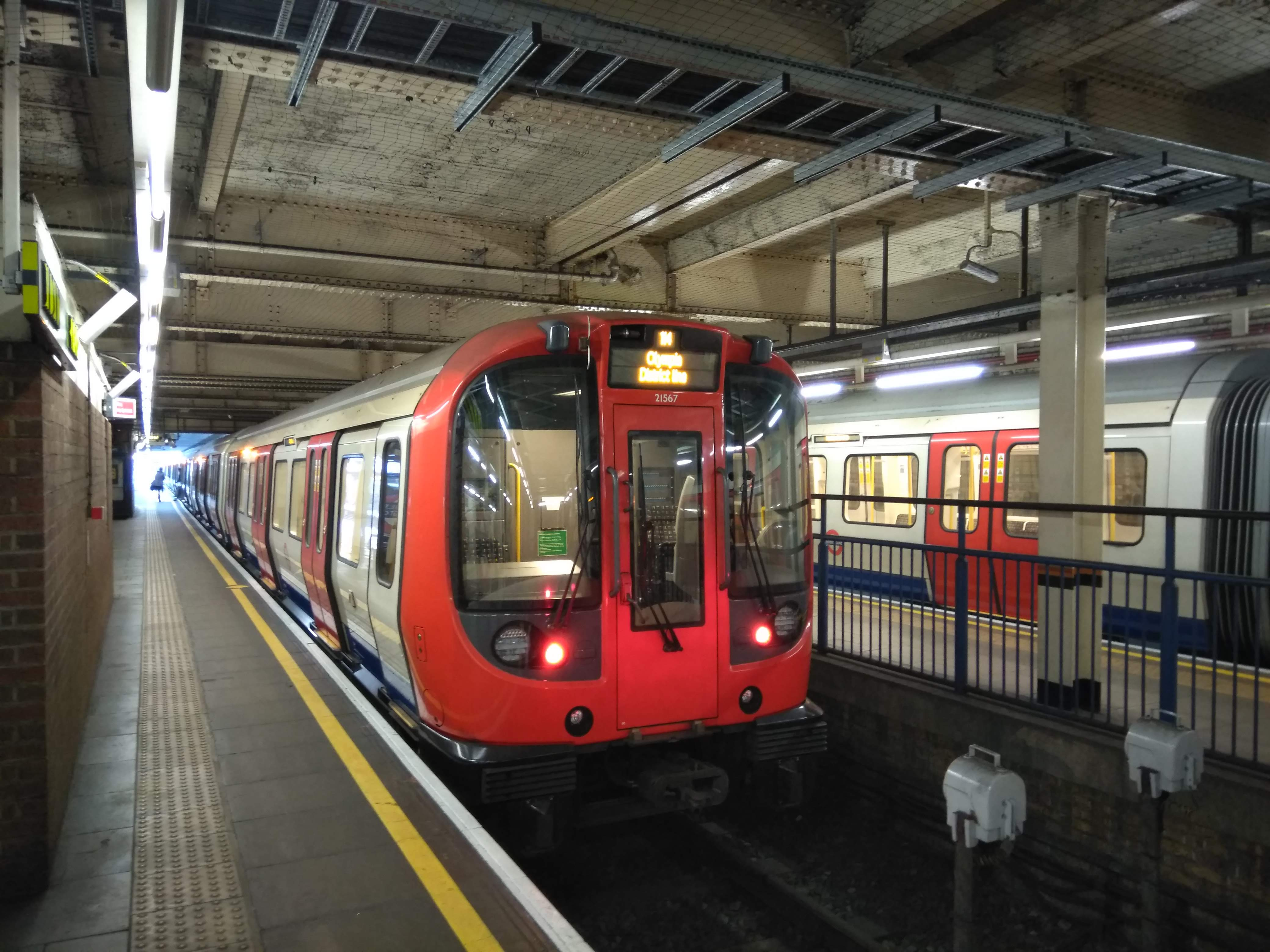 An S7 Stock train standing at one of the terminal platforms at High Street Kensington station as a service for Olympia.